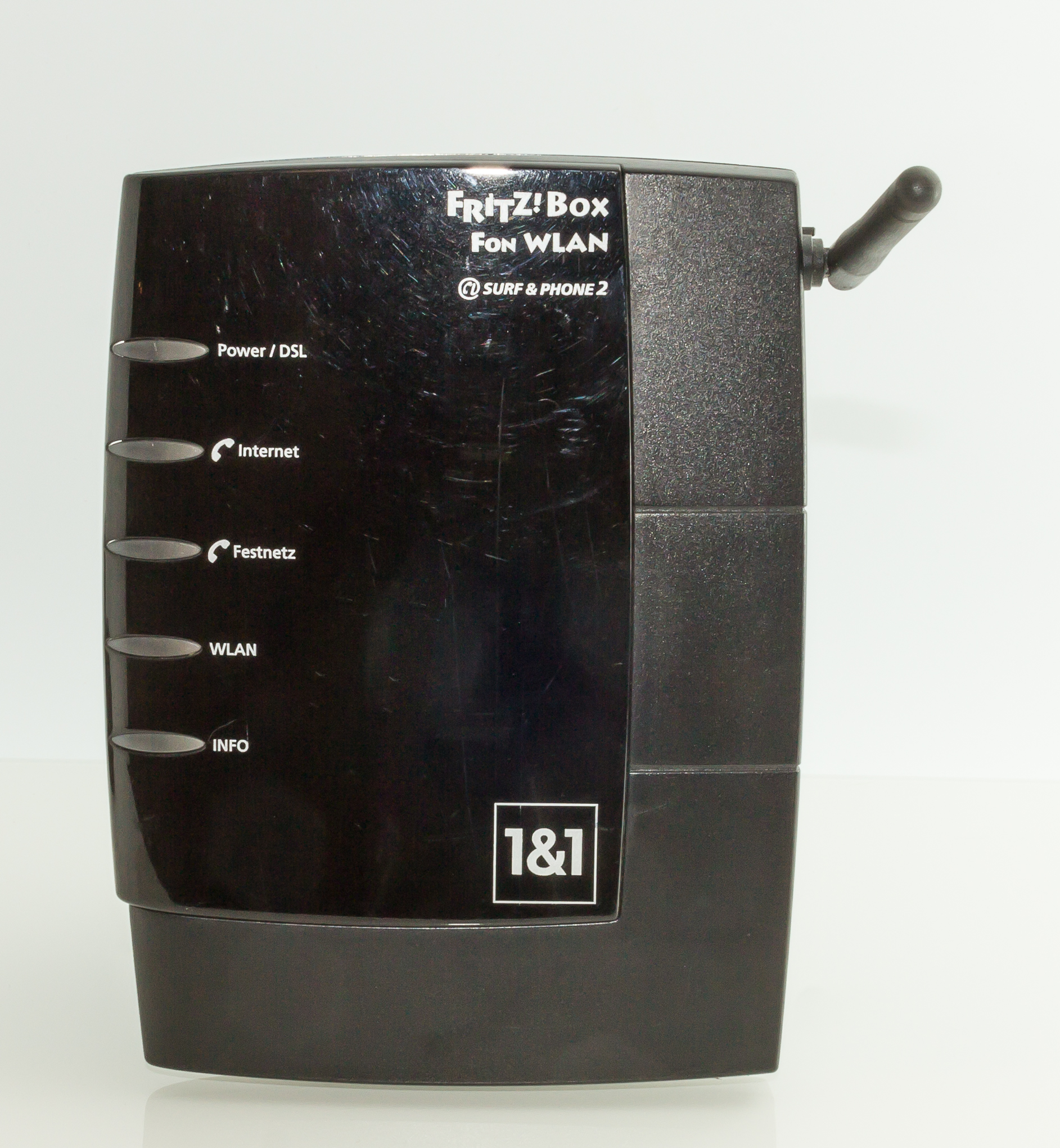 AVM Fritz!Box Fon WLAN 7141, branded by 1&1